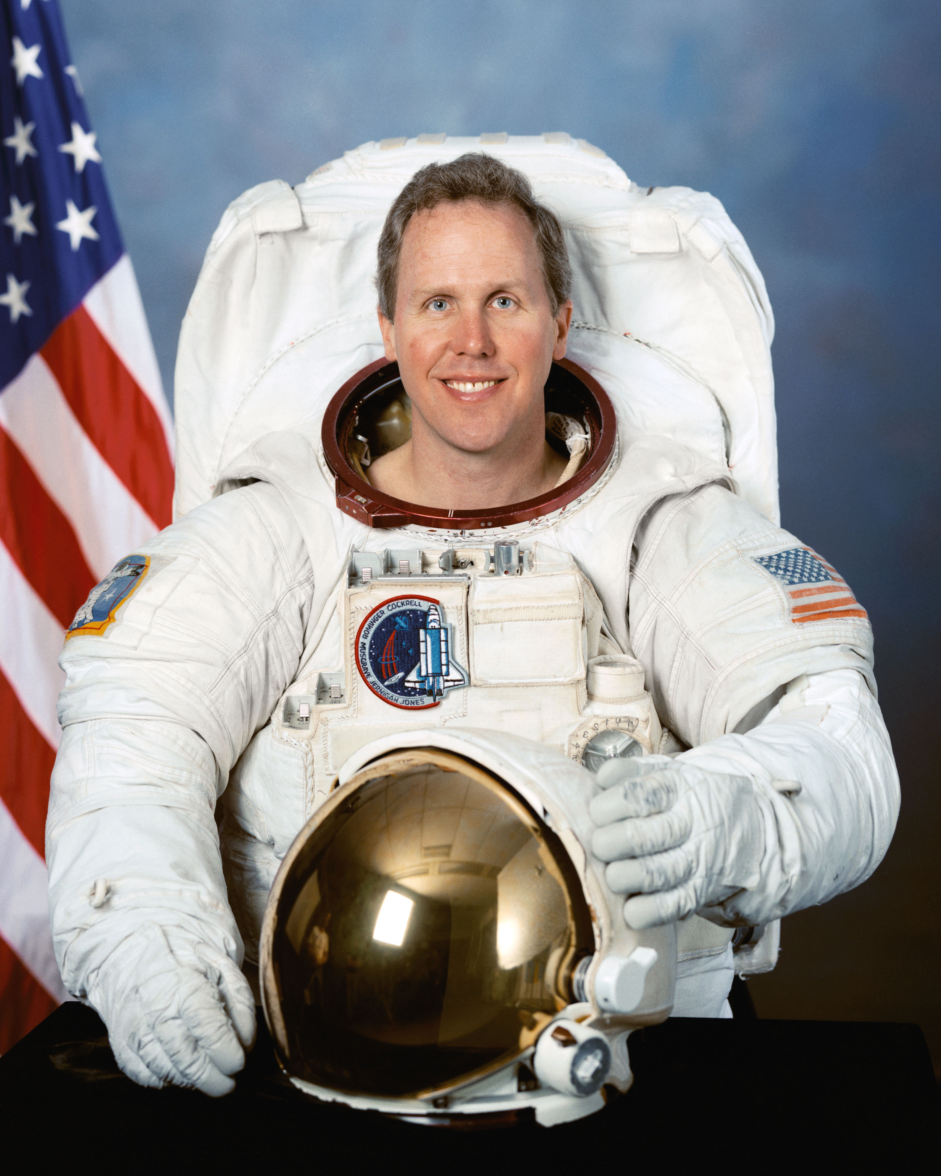 Astronaut Thomas D. Jones, mission specialist